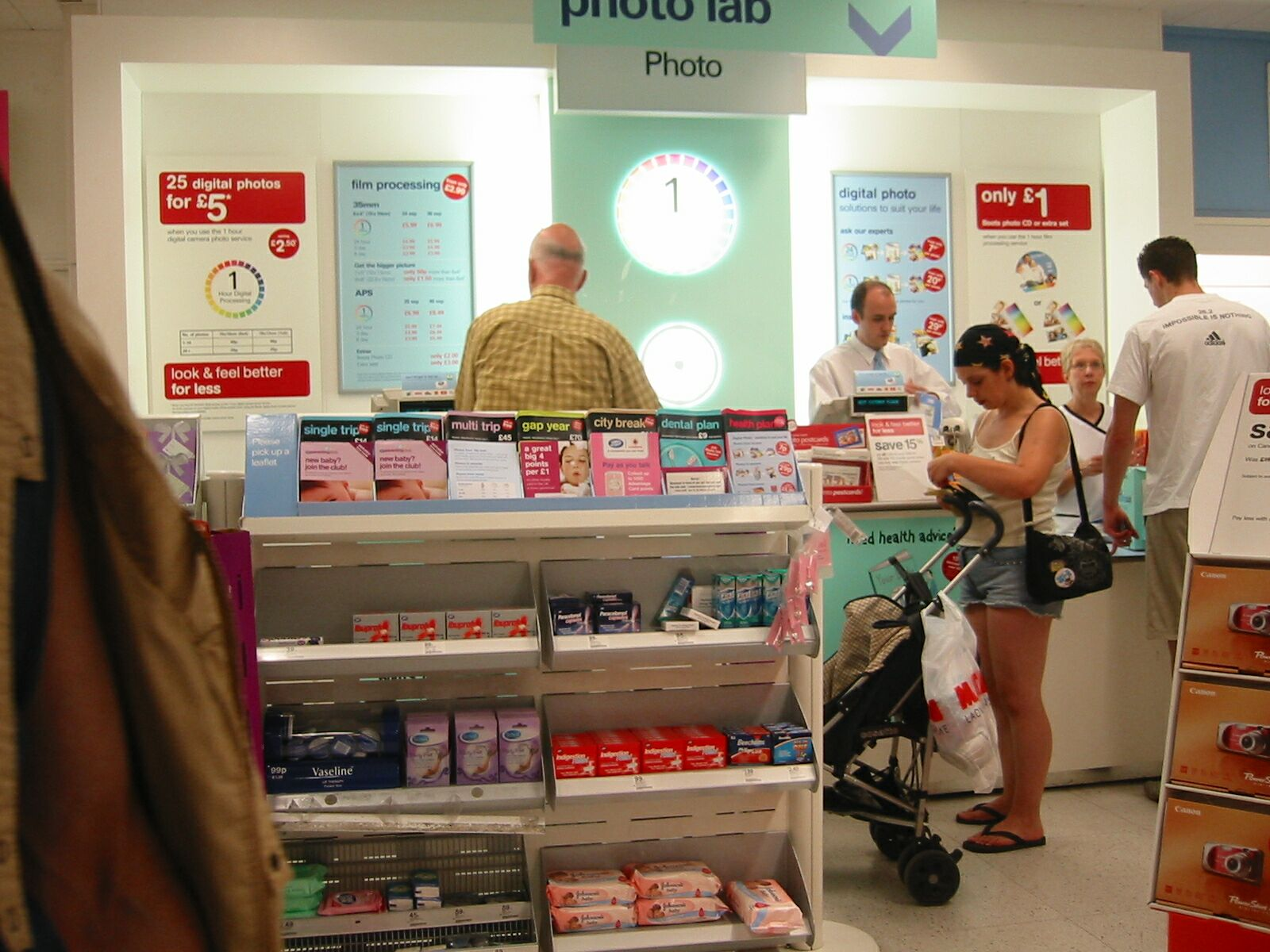 The photo lab of a Boots store